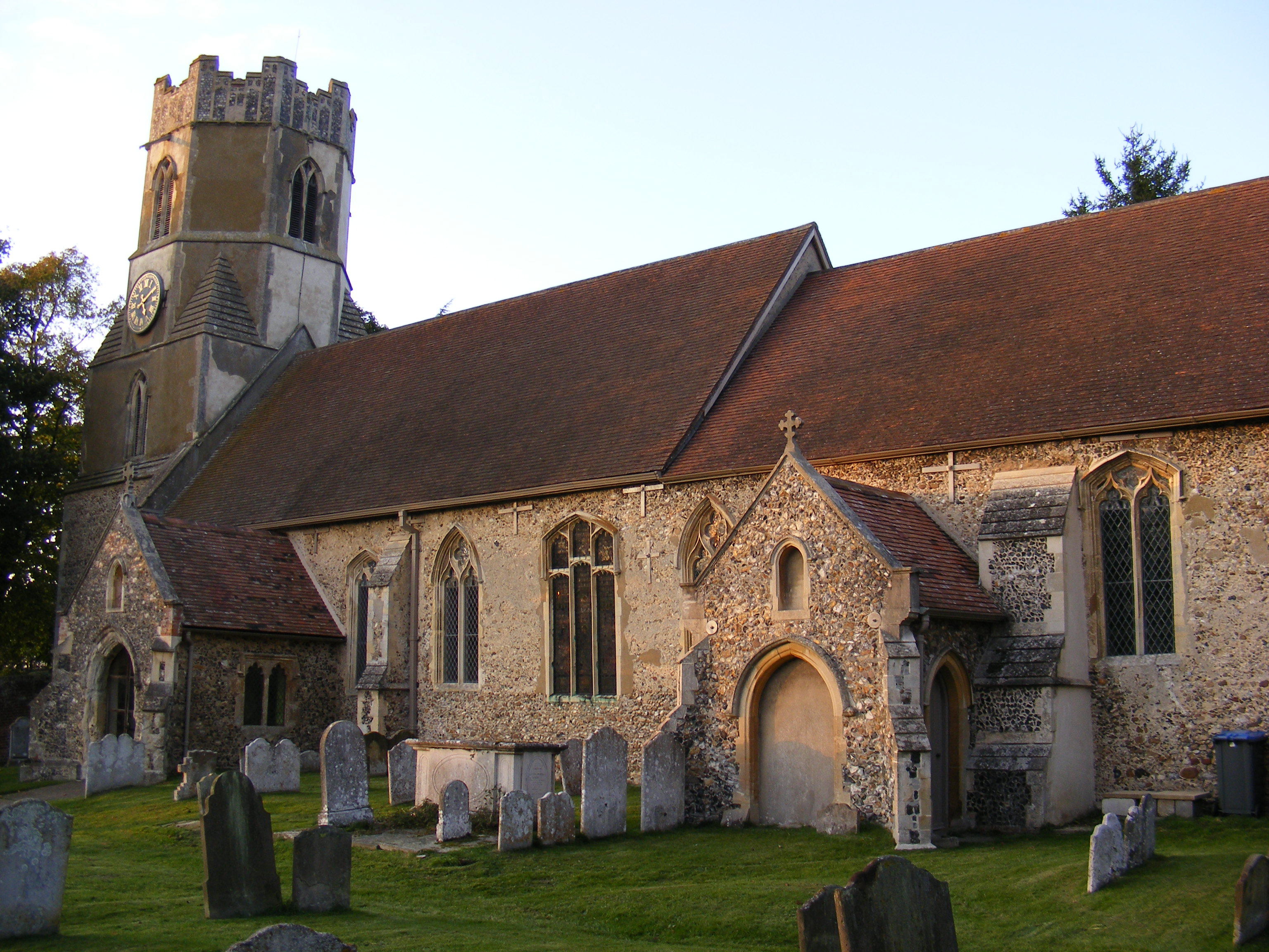 Church of All Saints in Easton, Suffolk, England. A Grade I listed medieval church.